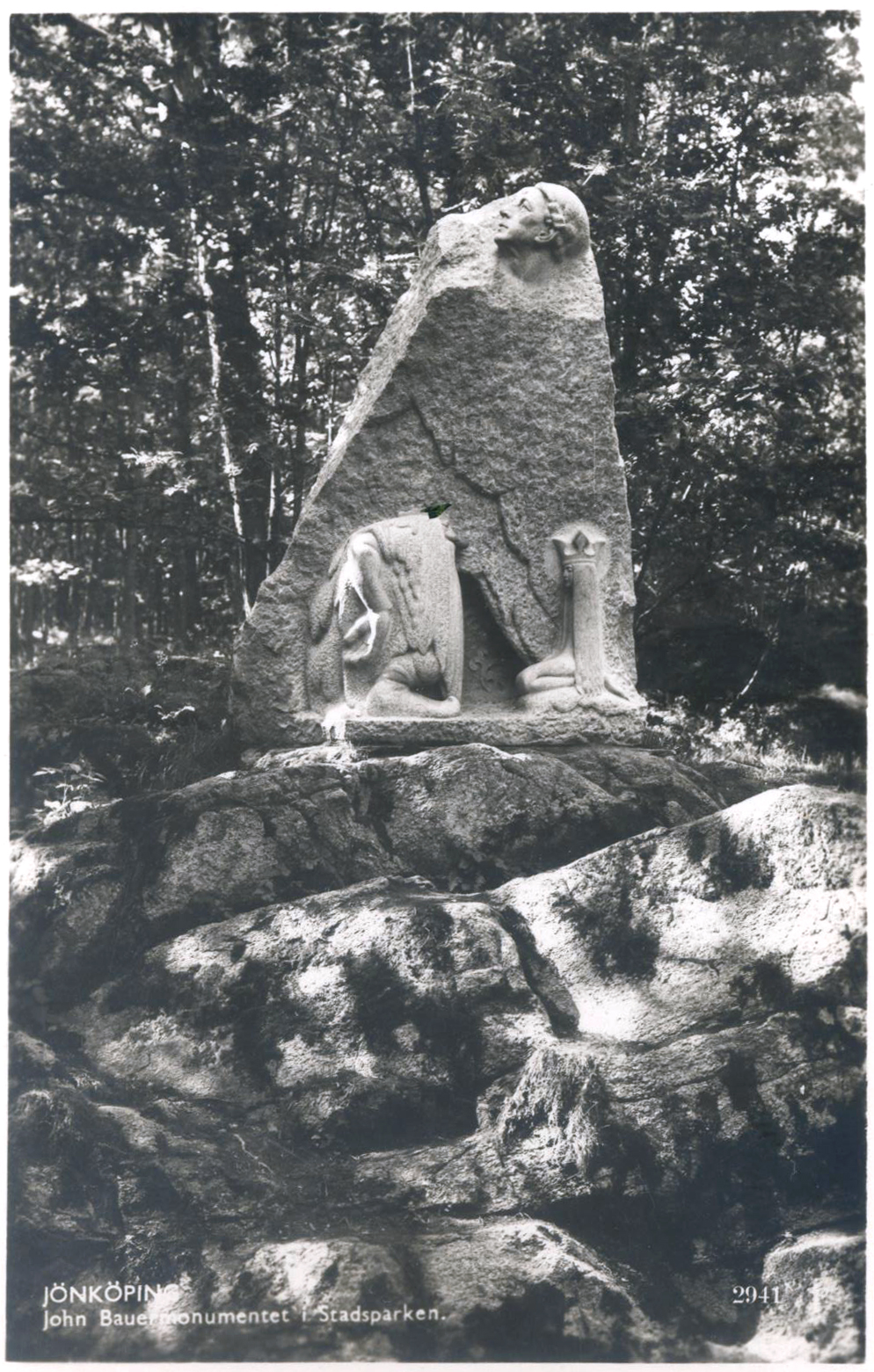 An old Swedish post card from Jönköping of the John Bauer monument by Carl Hultström. Scanned.